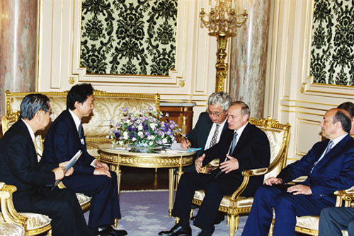 TOKYO. A meeting with the leader of the main opposition Democratic Party of Japan, Yukio Hatoyama.